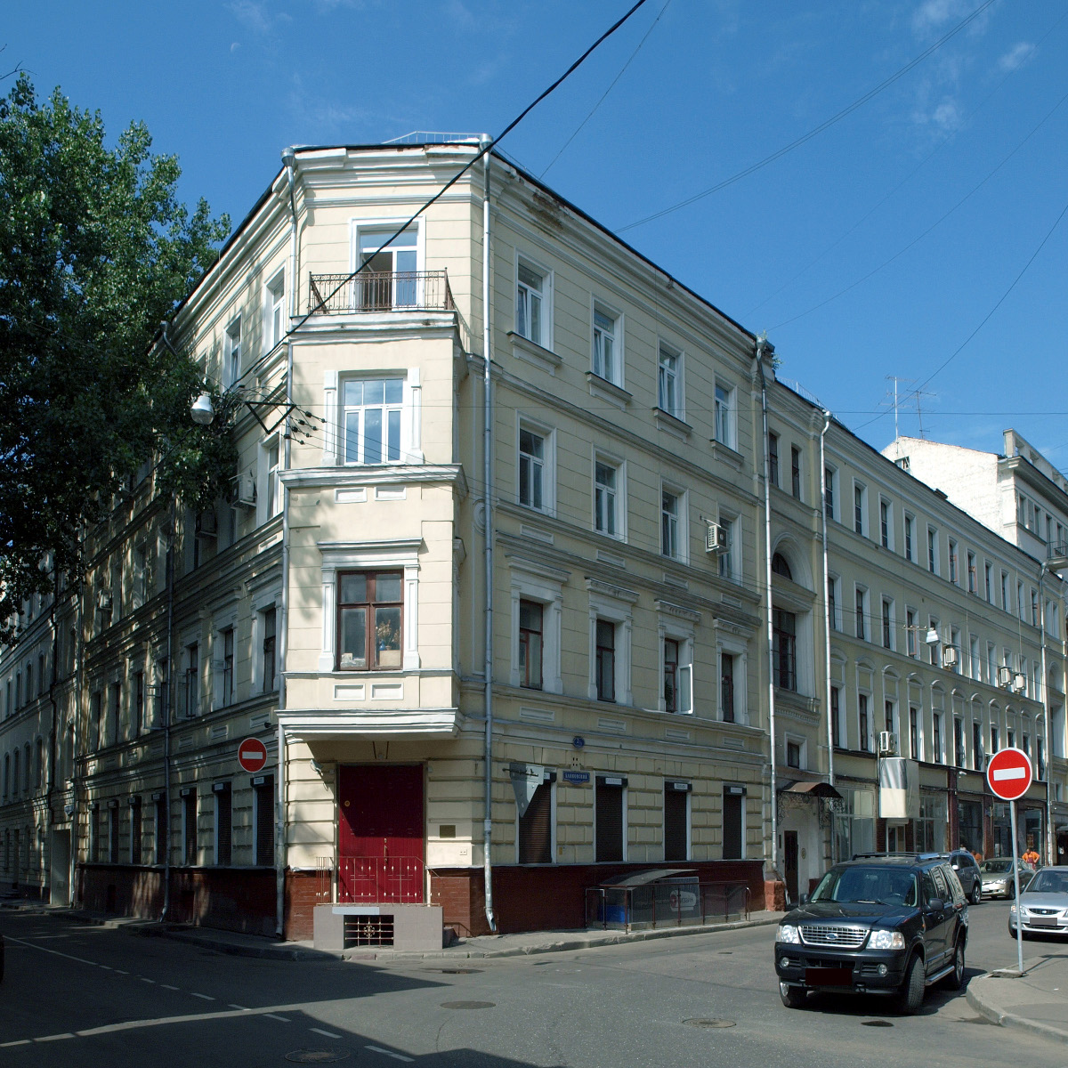 Krivokolenny Lane, Moscow.